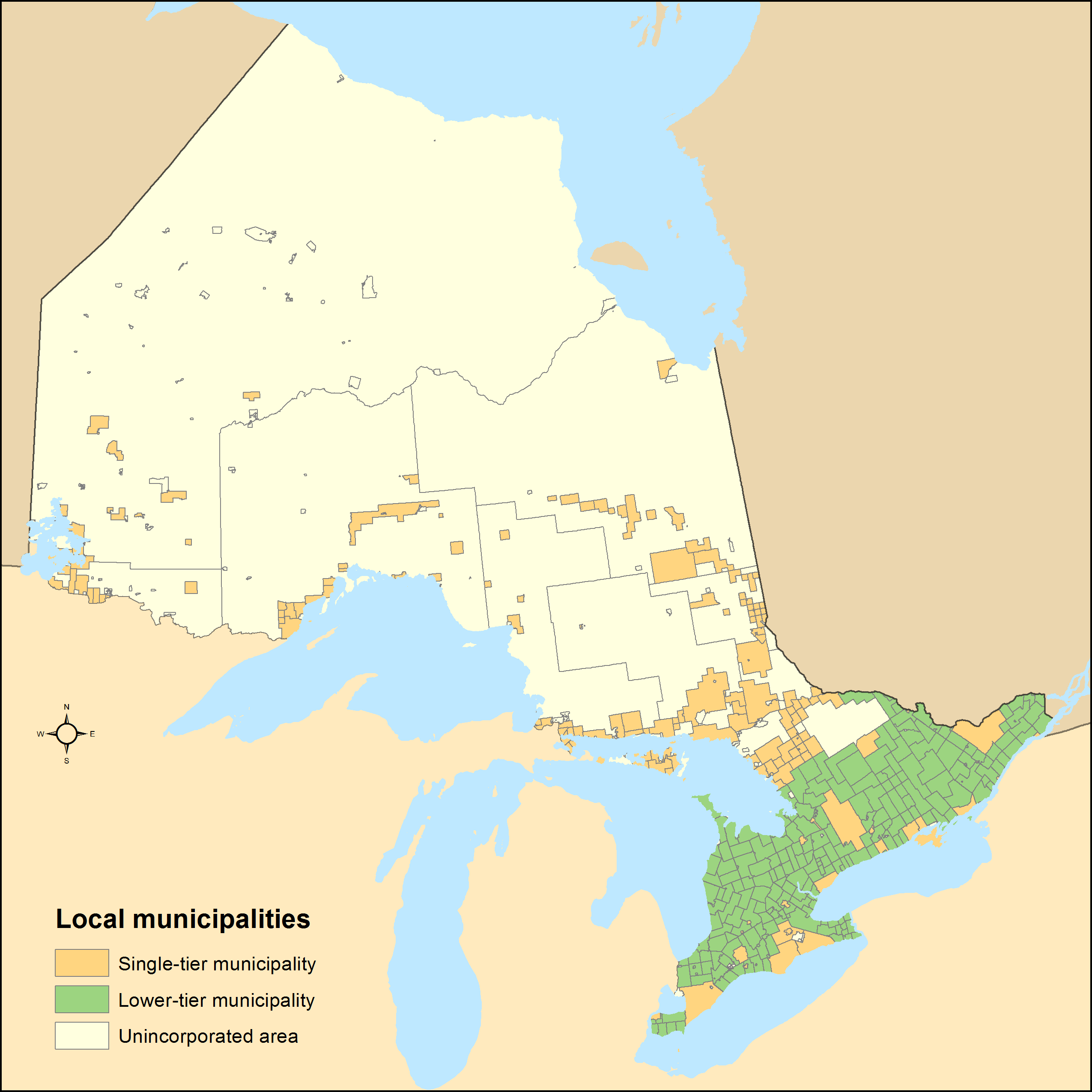 Distribution of Ontario's 173 single-tier municipalities, 241 lower-tier municipalities and remaining unincorporated areas utilizing Statistics Canada's census subdivisions from the 2011 census